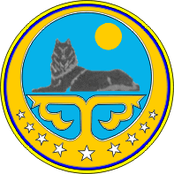 Coat of arms of the Chechen Republic Ichkeria